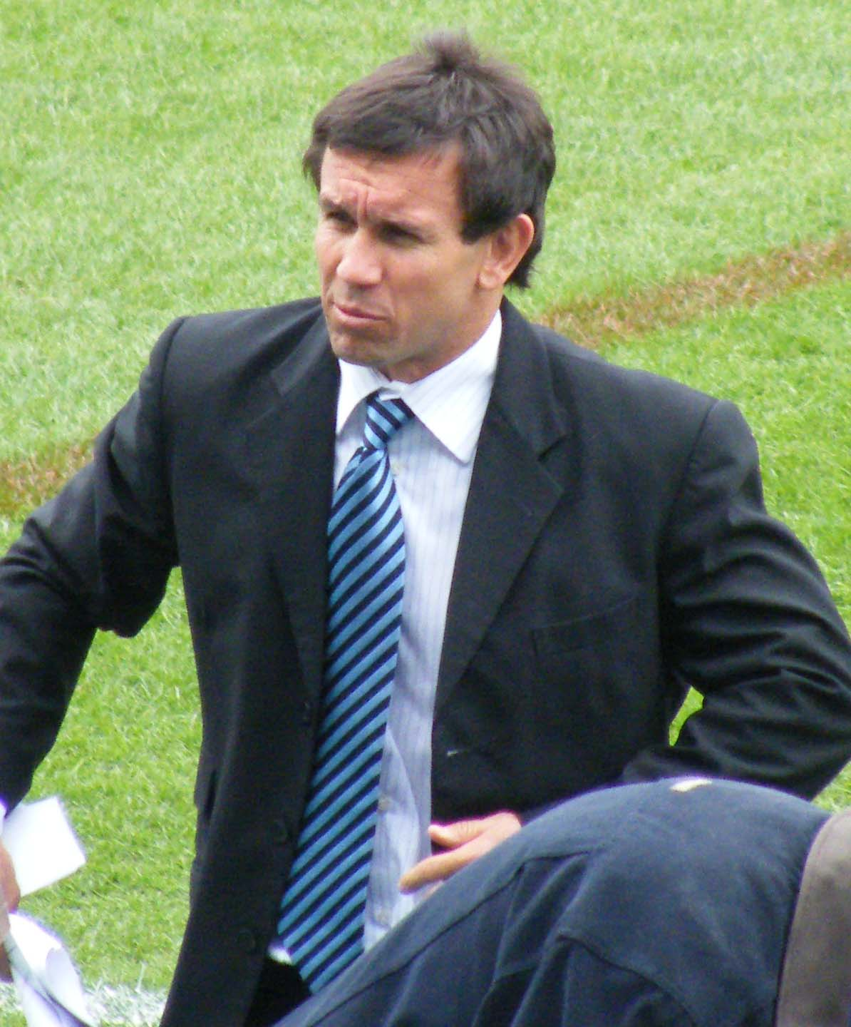 Looking tough Rugby League Commentator Matthew Johns. RLWC 2008 Aboriginal dreamtime team versus New Zealand Maori.